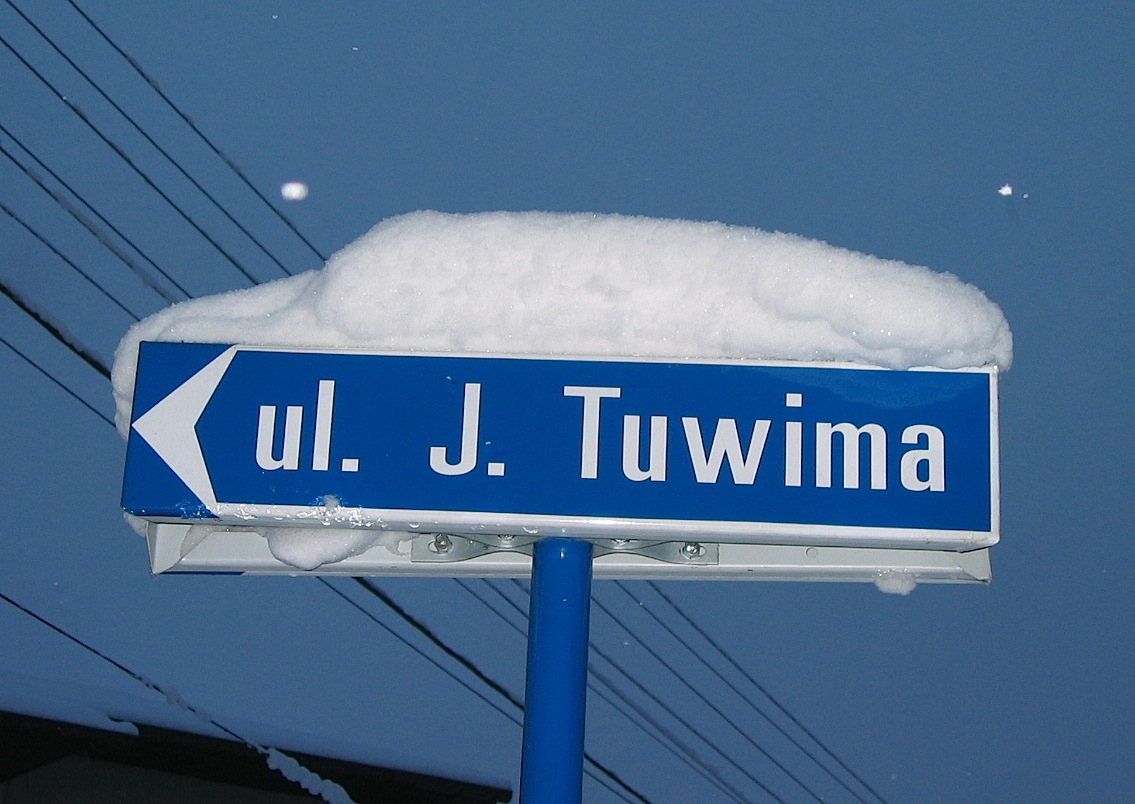 Tuwima St in Chrzanów